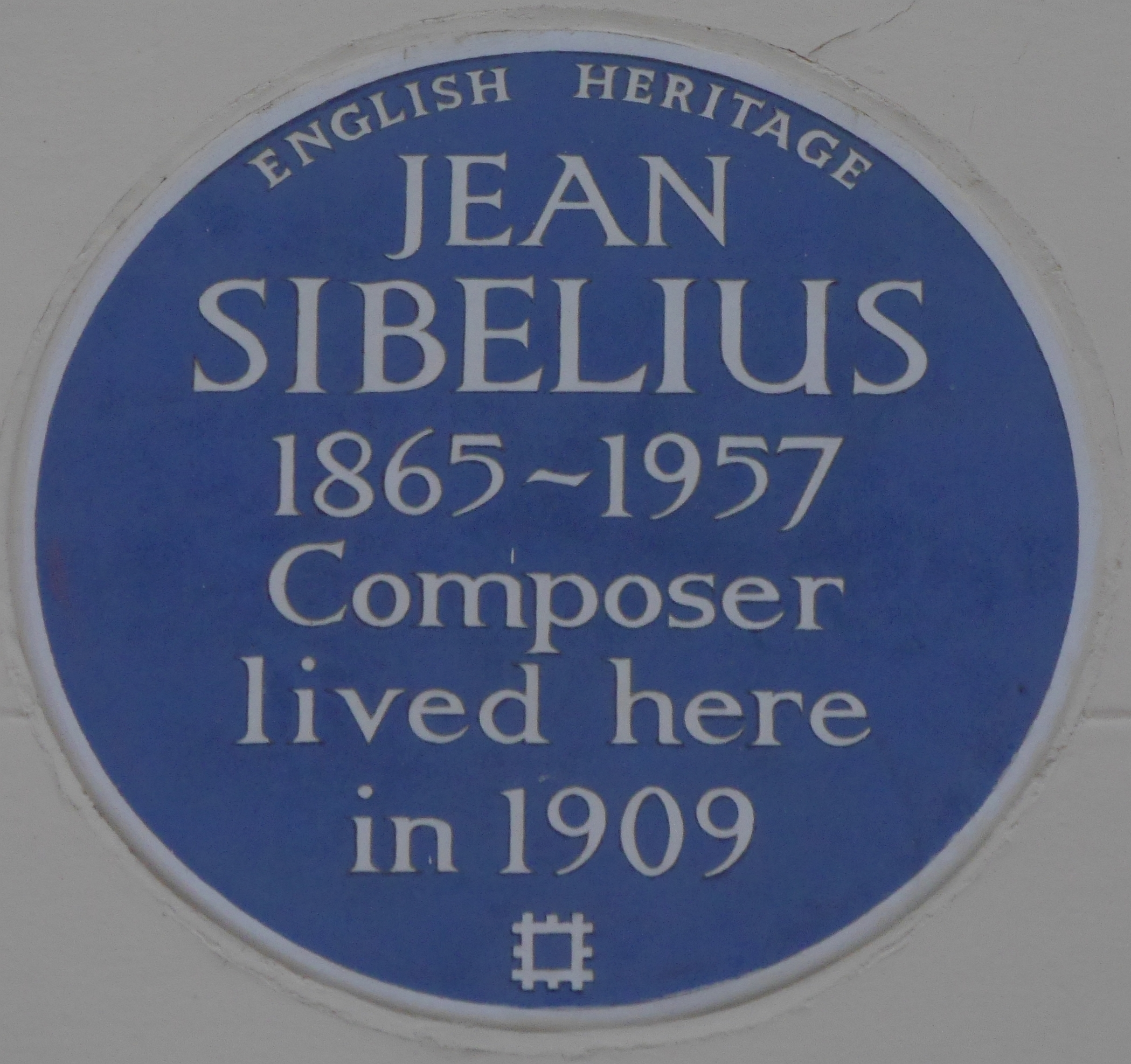 Jean Sibelius 15 Gloucester Walk blue plaque